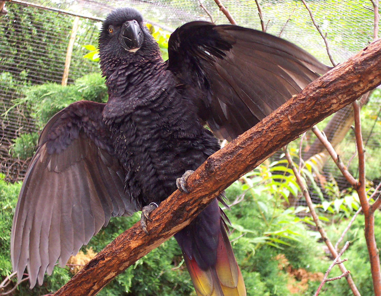 Black lori in Prague Zoo